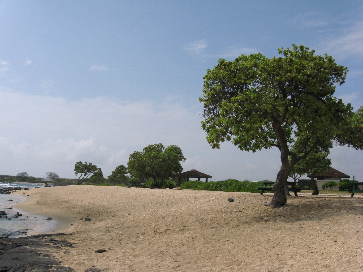 Old Kona Airport was turned into a State Park in 1970.